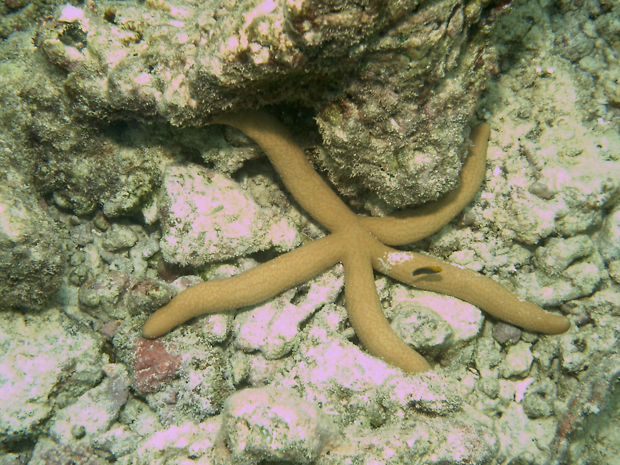 Guildings's sea star, Linkia guildingi. Taken Meedhupparu, Maldives North house reef.